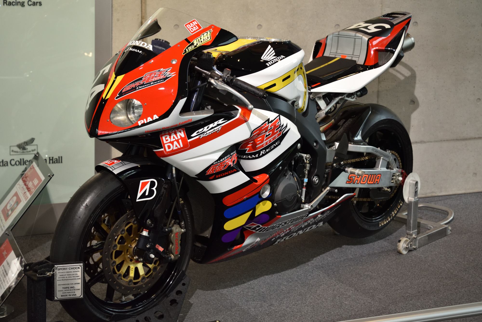 HONDA CBR1000RR (Kamen Rider Den-O Honda DREAM RT, 2007 Suzuka 8h)